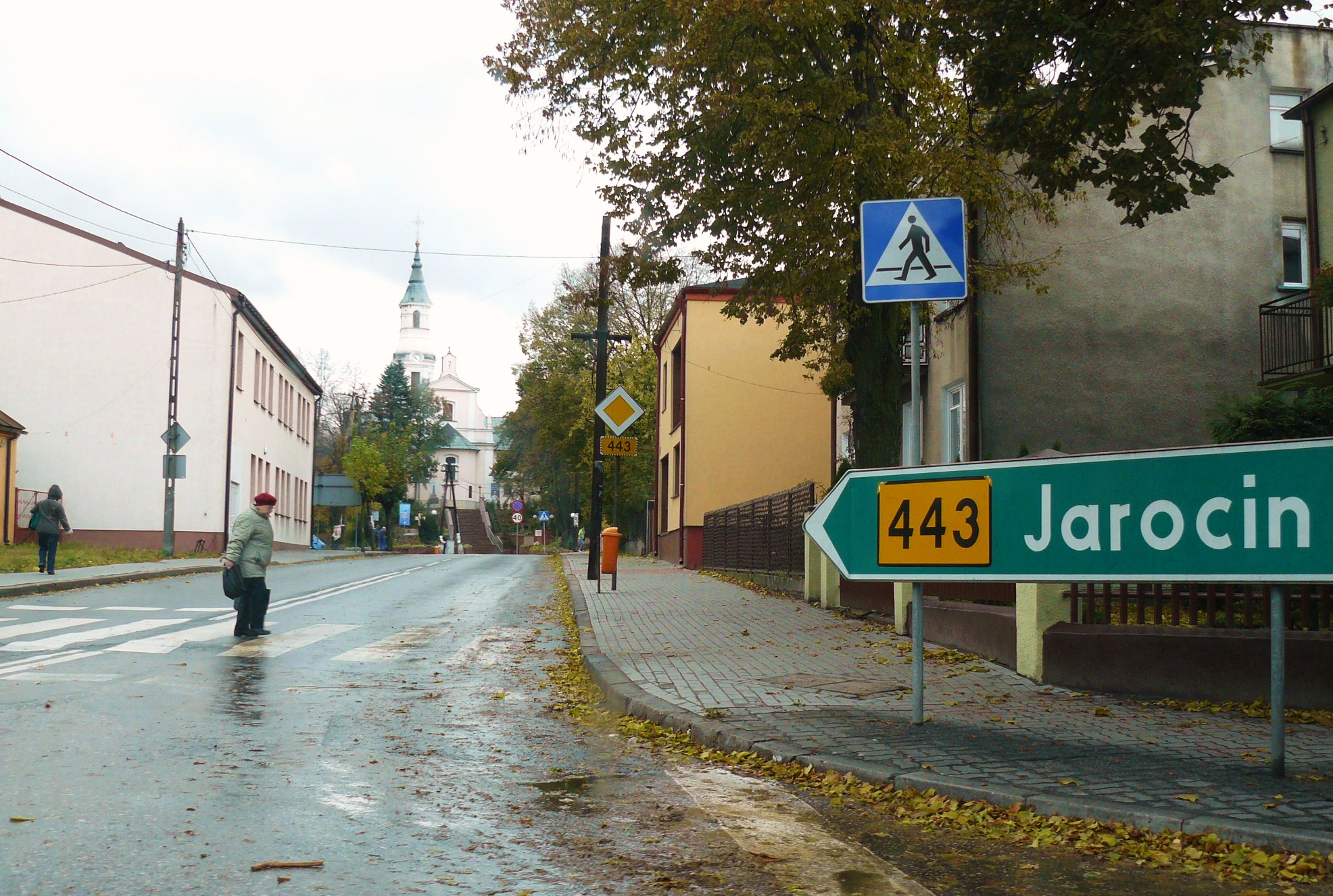 Center of Tuliszkow.